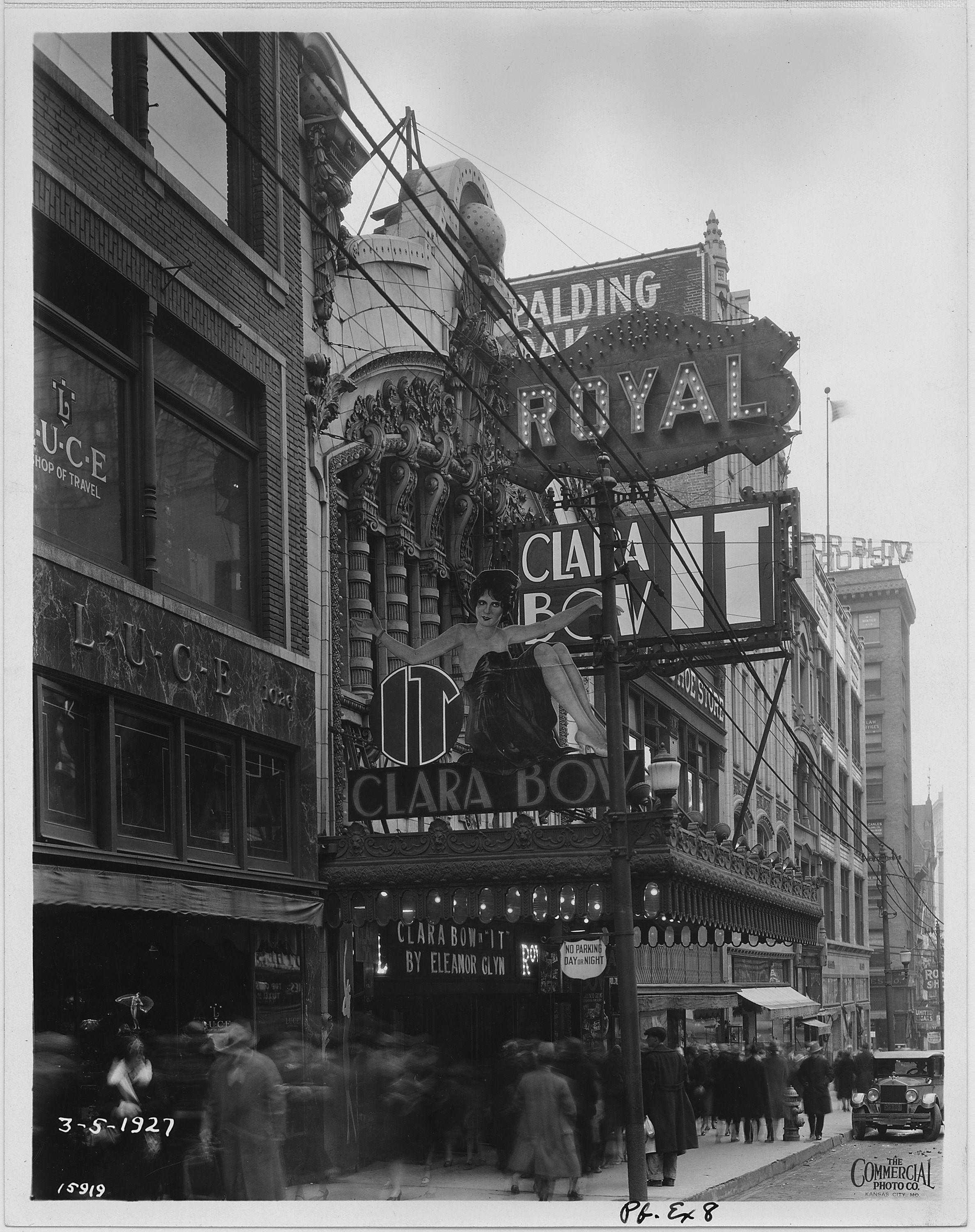 Scope and content: Exterior shots, both daylight and night exposures, showing the front of the theater and other businesses on the street. The marquee displays feature Clara Bow, Douglas Fairbanks, Lillian Gish, and Harold Lloyd, among others. The motion picture titles are clearly visible. #891 is a panorama of the block clearly showing details on the front of the buildings. In many of the photos cars are parked on the street.